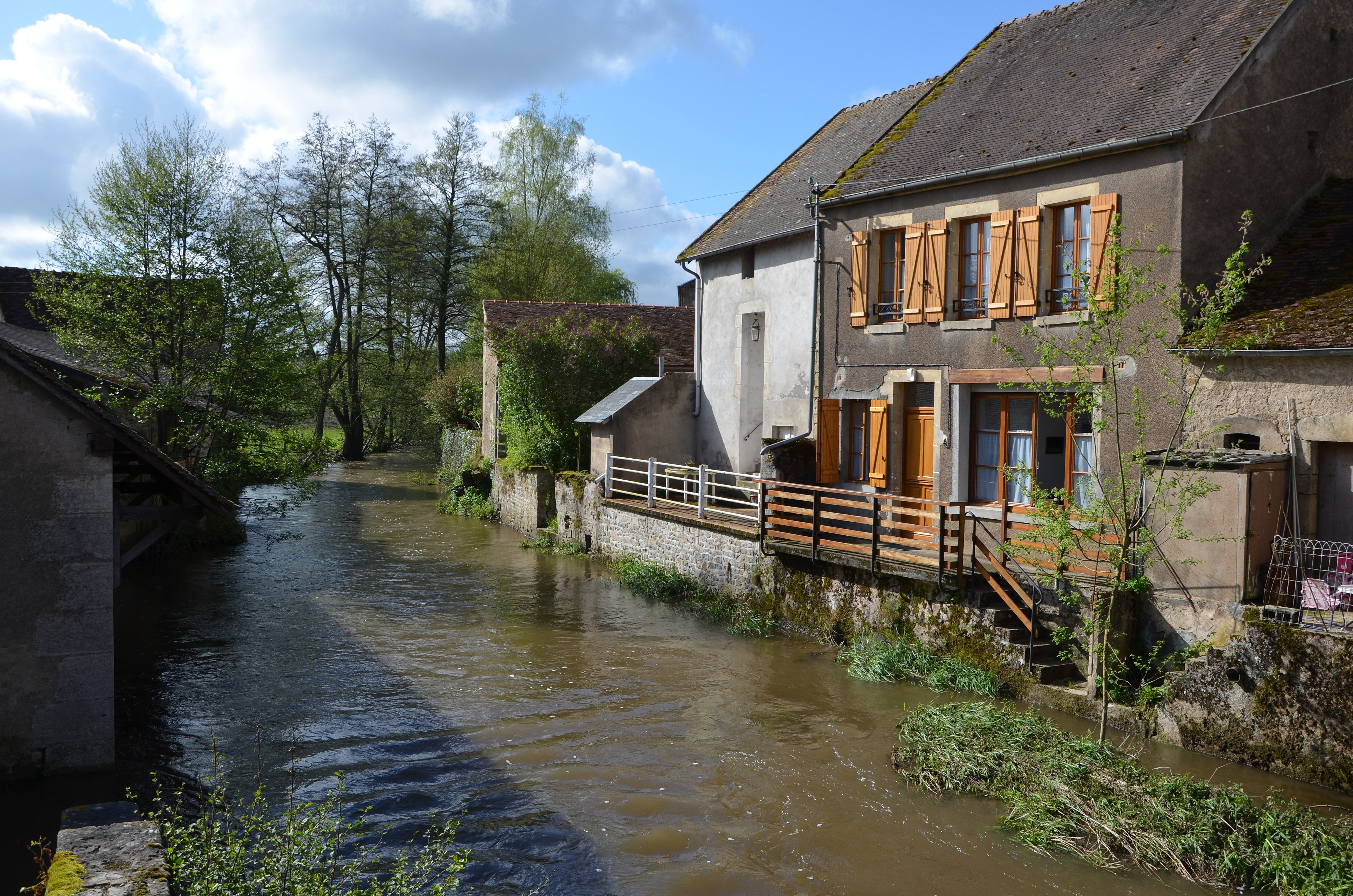 The river Anguison in Corbigny, Nièvre, France